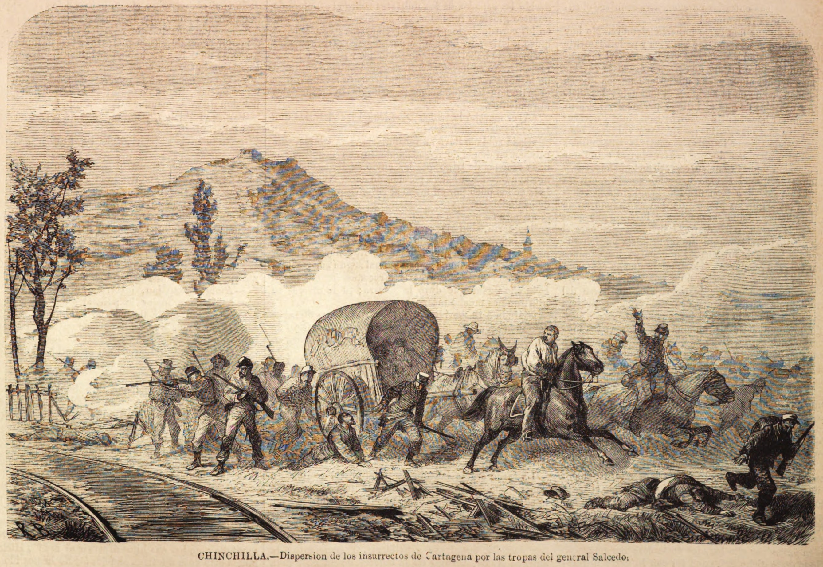 Chinchilla.— Dispersion of the insurgents of Cartagena by the troops of General Salcedo.